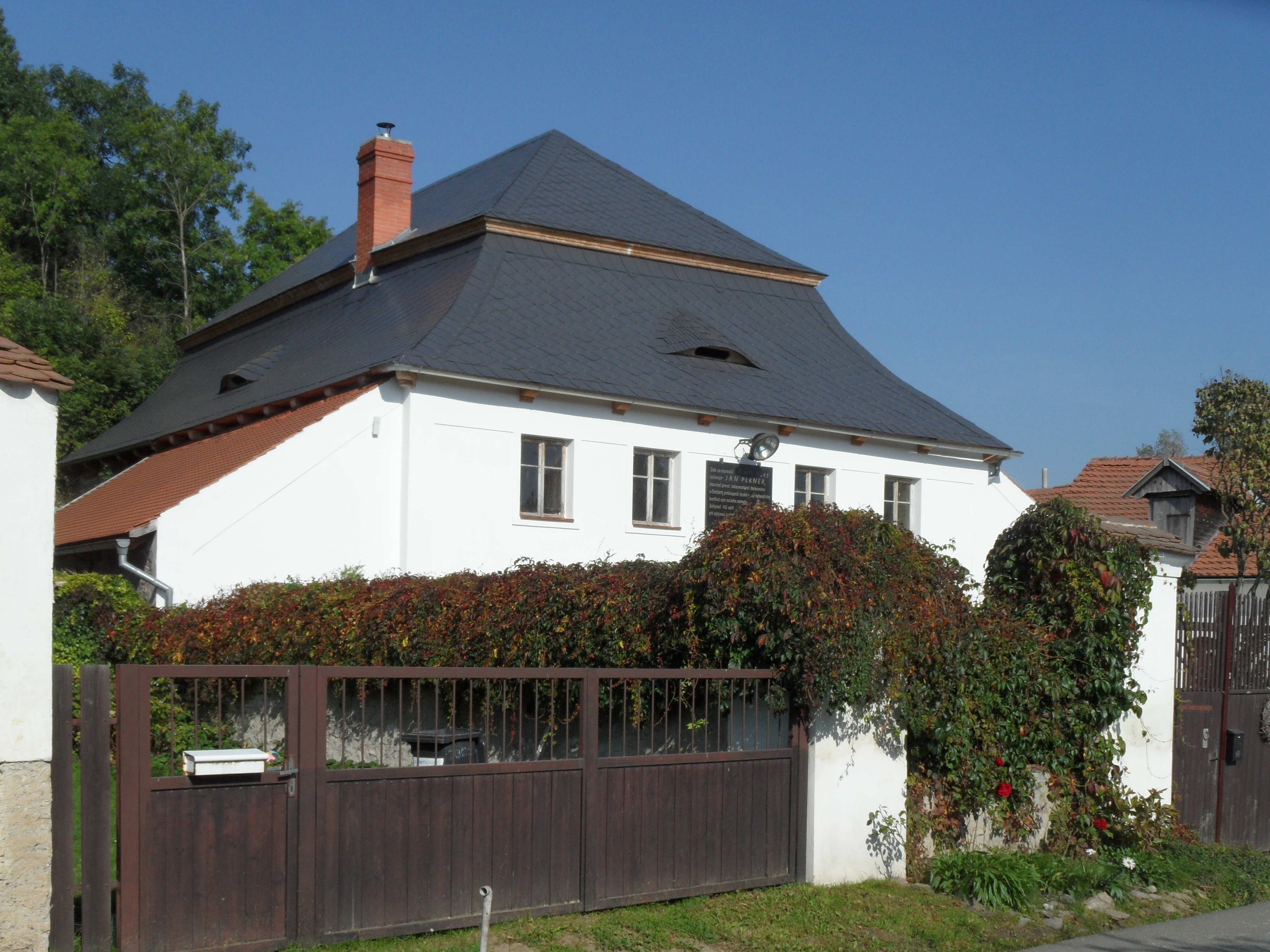 Bratčice (okres KH) B. Water Mill No 34. Frontal View (Slightly from Left), Kutná Hora District, the Czech Republic.